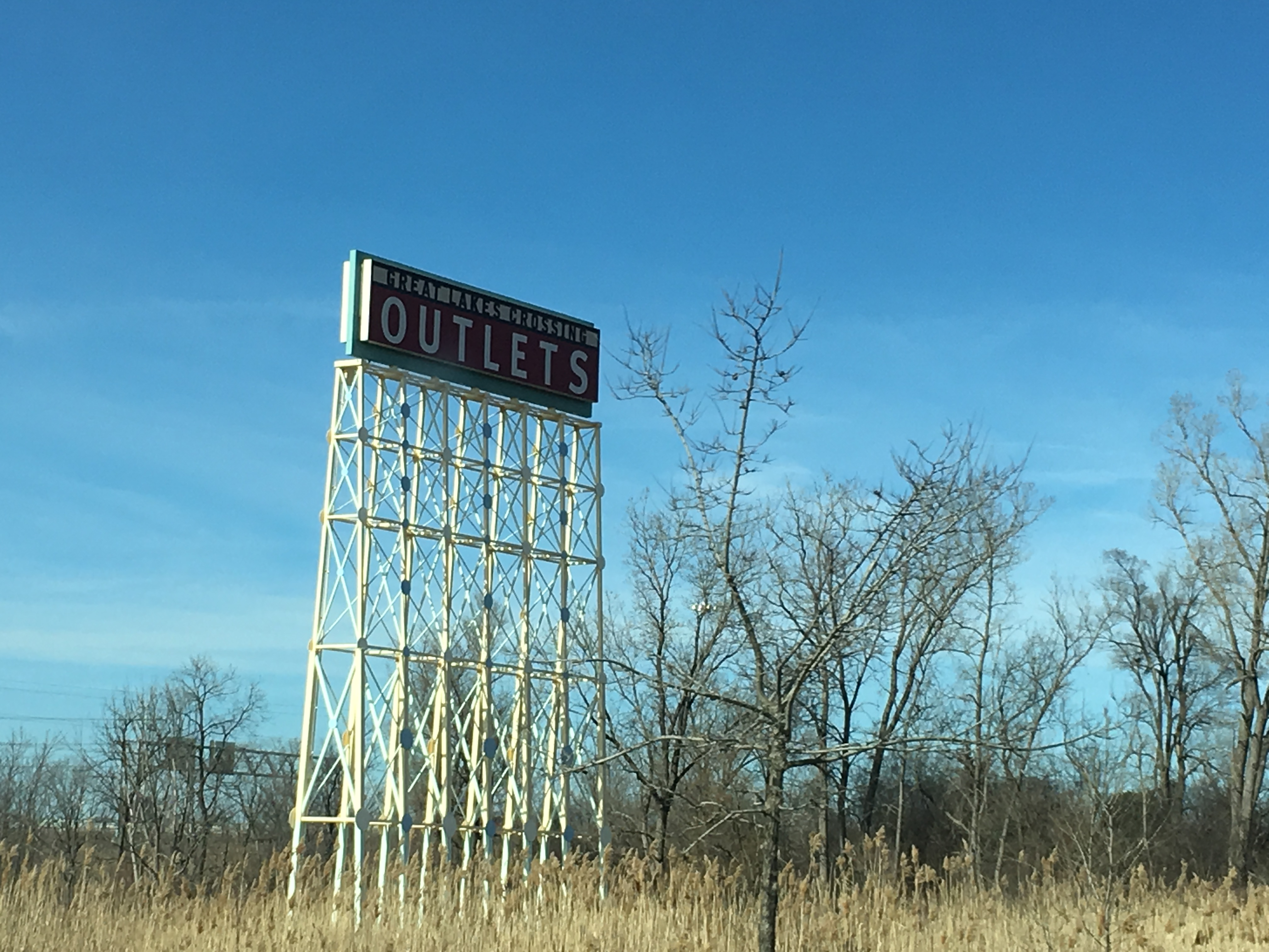 The Great Lakes Crossing marquee, visible off of Interstate-75 in Auburn Hills, Michigan.